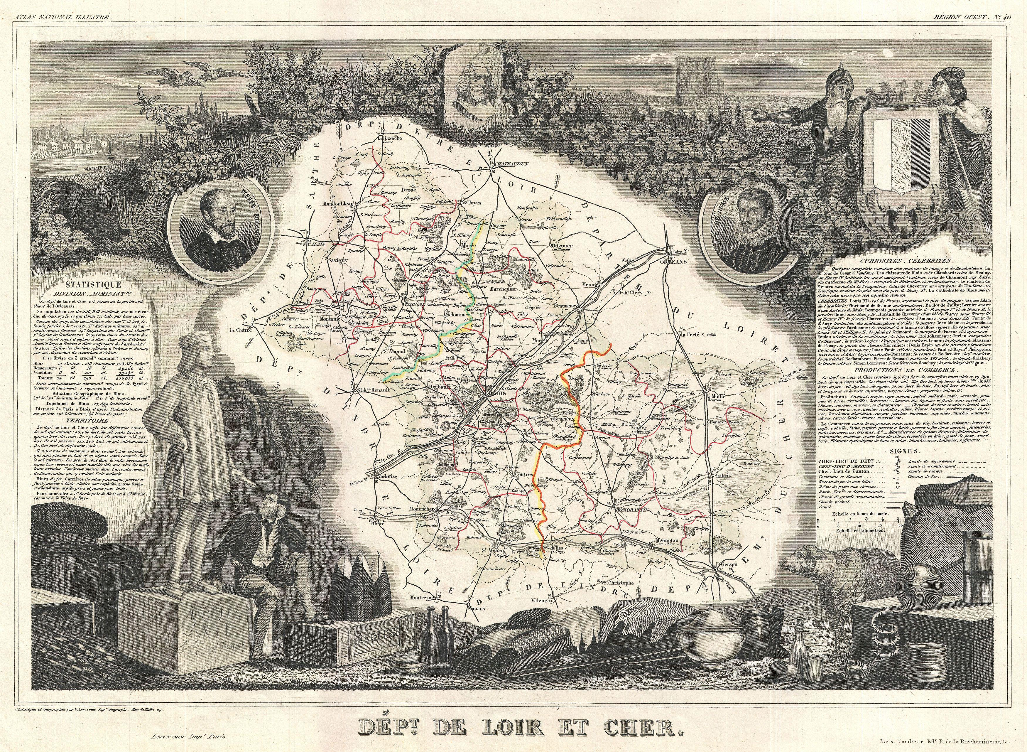 This is a fascinating 1852 map of the French department Loir-et-Cher, France. This area is mainly known for its production of Selles-sur-Cher, a fine goats-milk cheese. The whole is surrounded by elaborate decorative engravings designed to illustrate both the natural beauty and trade richness of the land. There is a short textual history of the regions depicted on both the left and right sides of the map. Published by V. Levasseur in the 1852 edition of his Atlas National de la France Illustree.